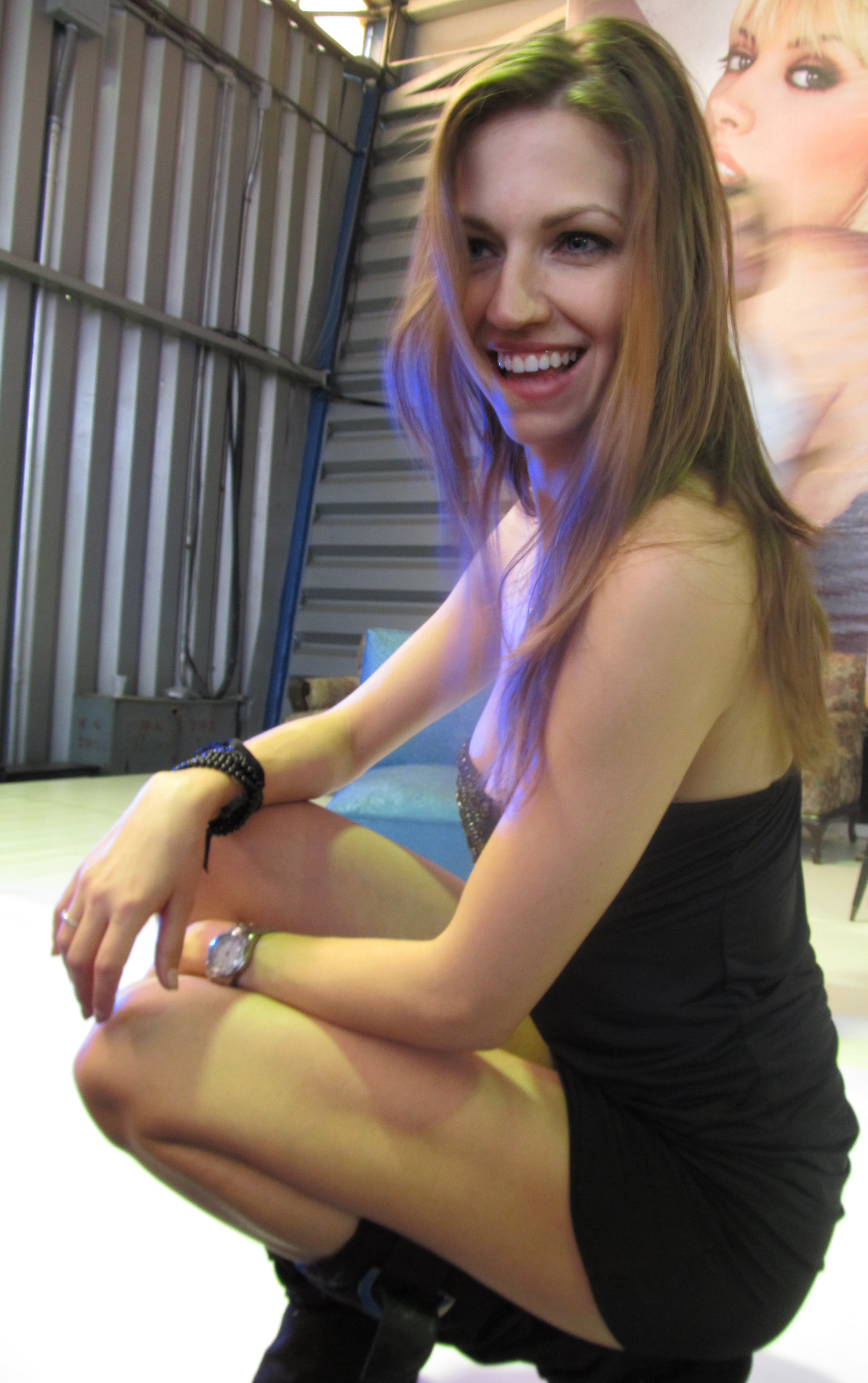 Sex & Entertainment 2012, Palace of Sports, Mexico City.